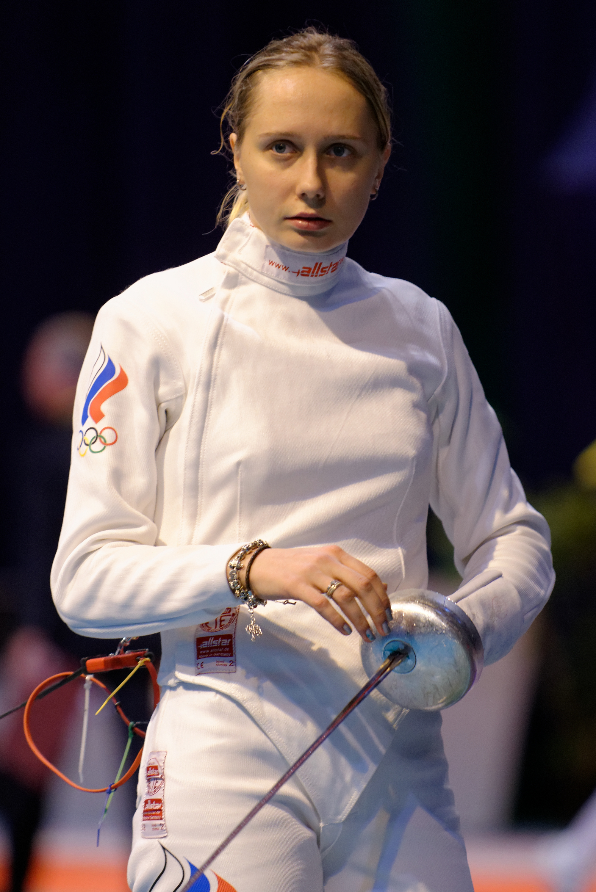 Russia's Yana Zvereva at the 2014 Challenge International de Saint-Maur (women's épée World Cup).